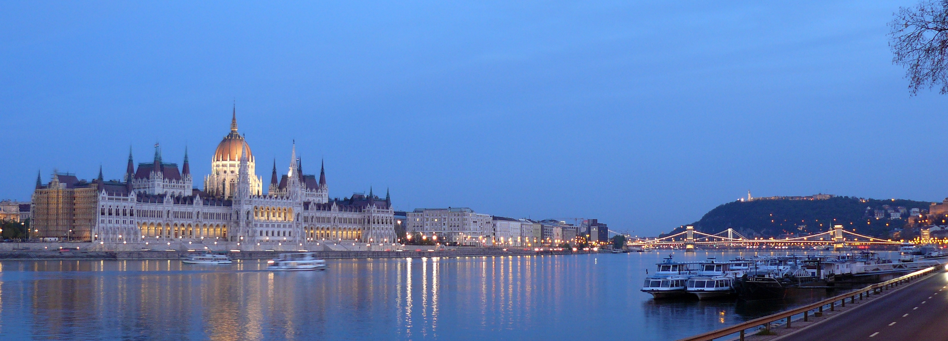 Early evening view of Budapest with the building of Hungarian Parliament, Chain-bridge and Gellért-hill.